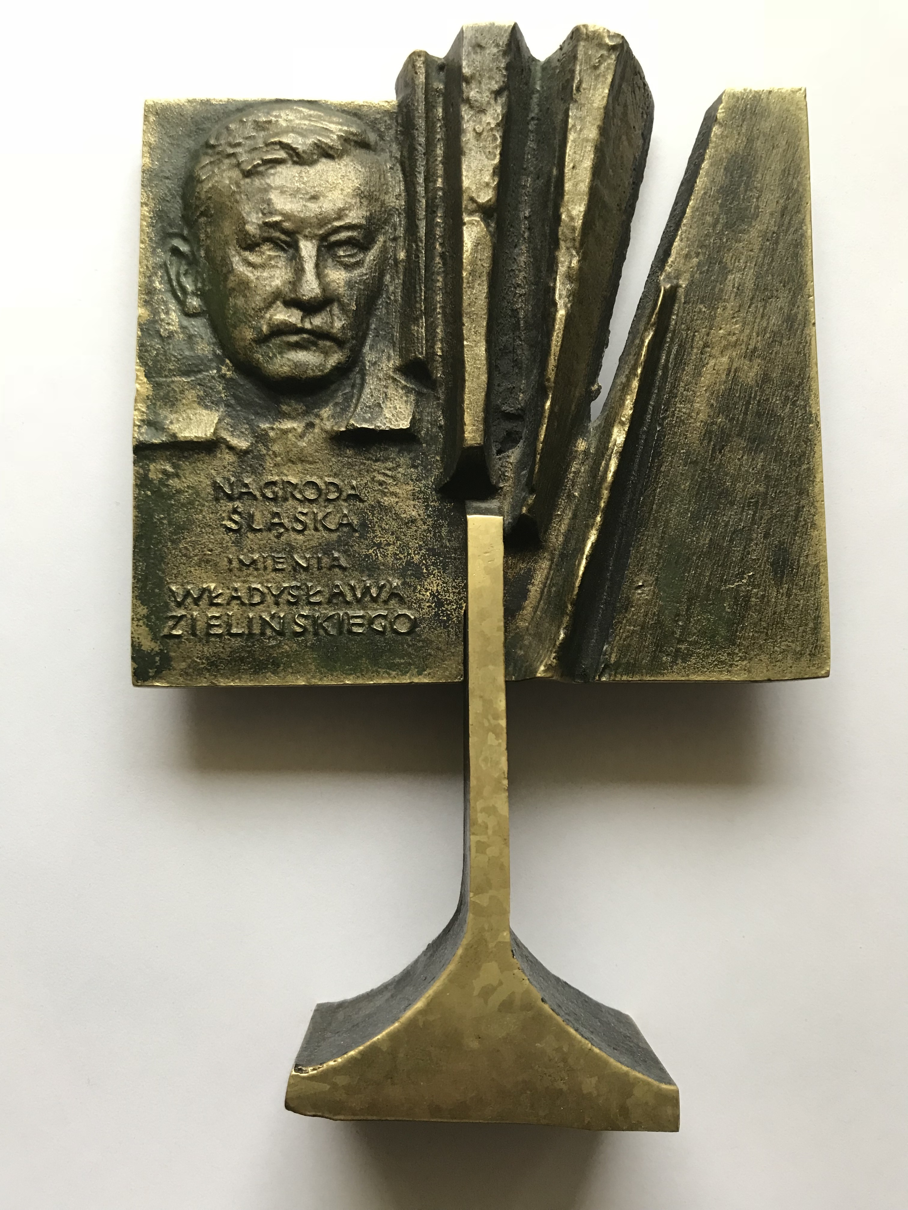 Władysław Zieliński's Silesian Award